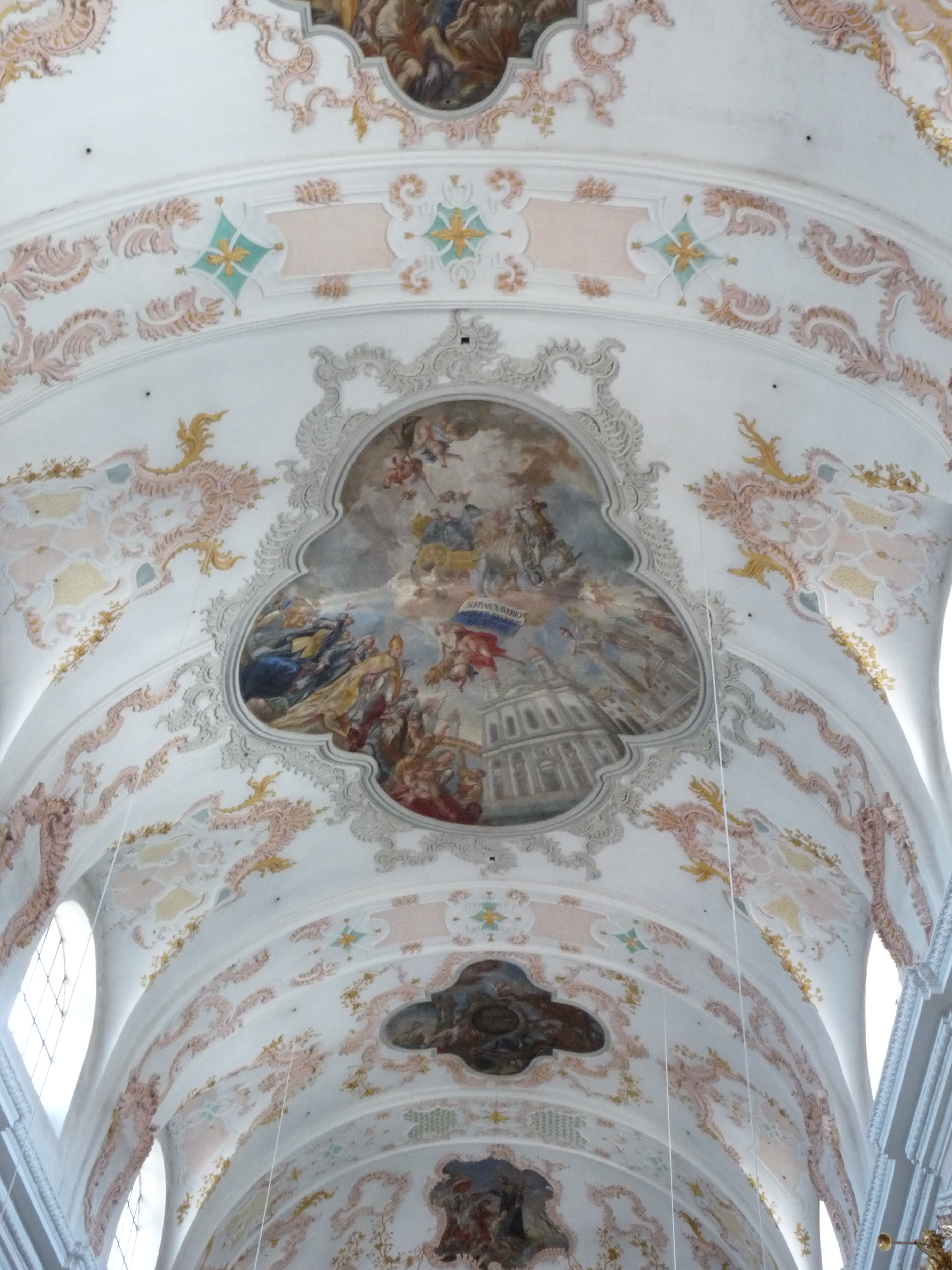 Luzern/Lucerne (Switzerland): ceiling of the Jesuit Church of Saint Francis Xavier with frescoes from the brothers Torricelli